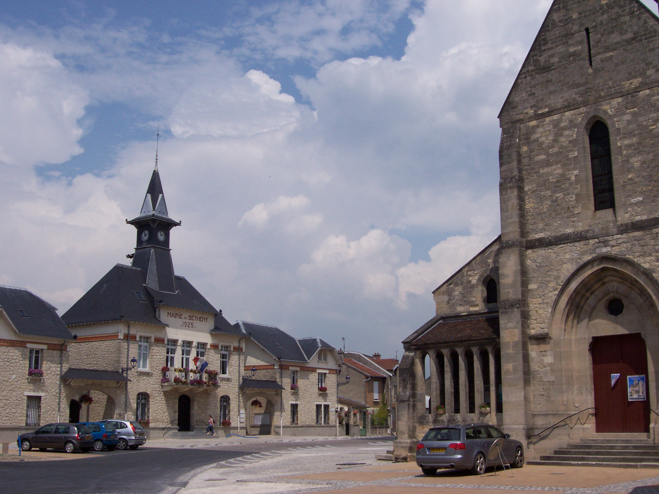 Central place of Betheny, Marne (Champagne), France, with the church and the town hall